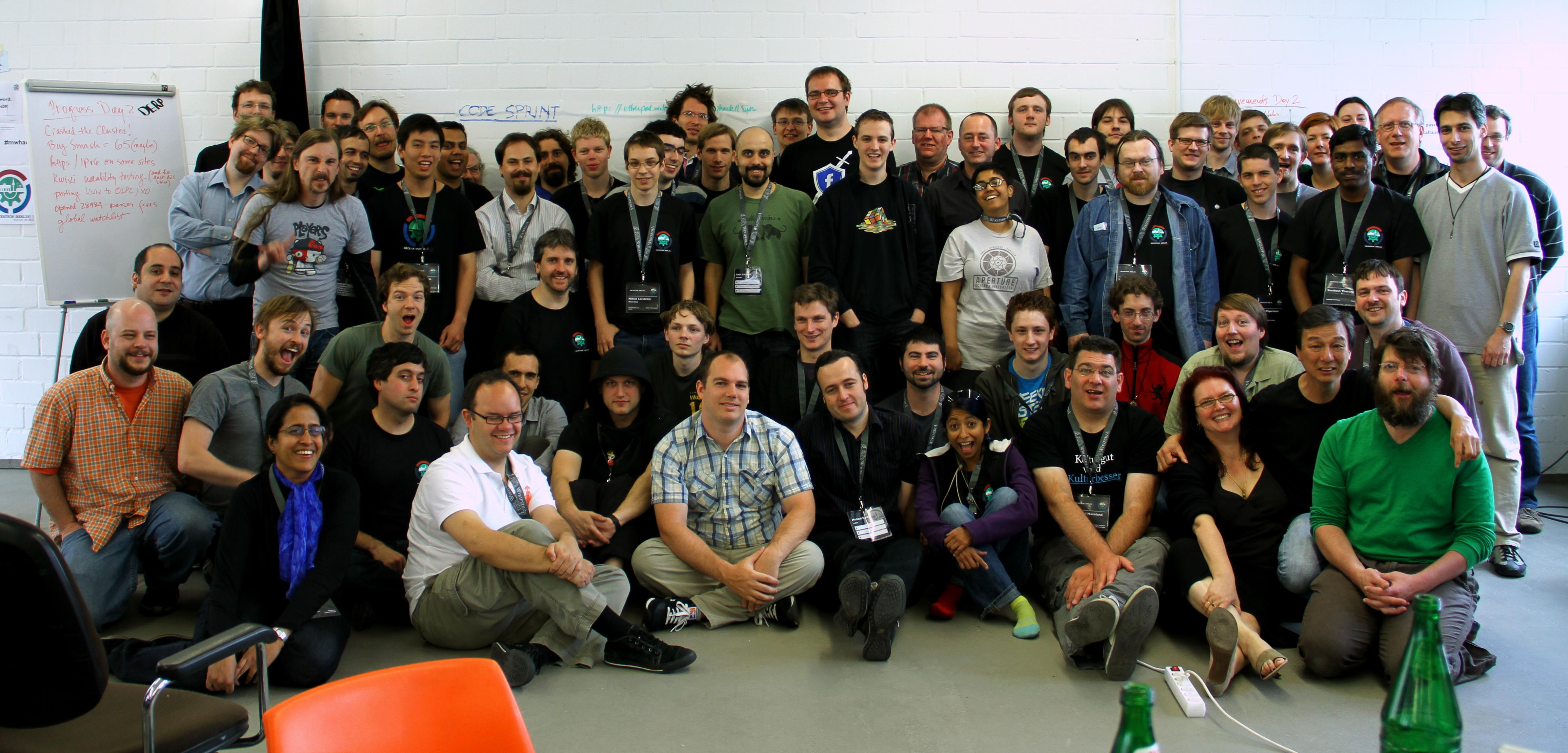 Group photo of the Hackathon's participants